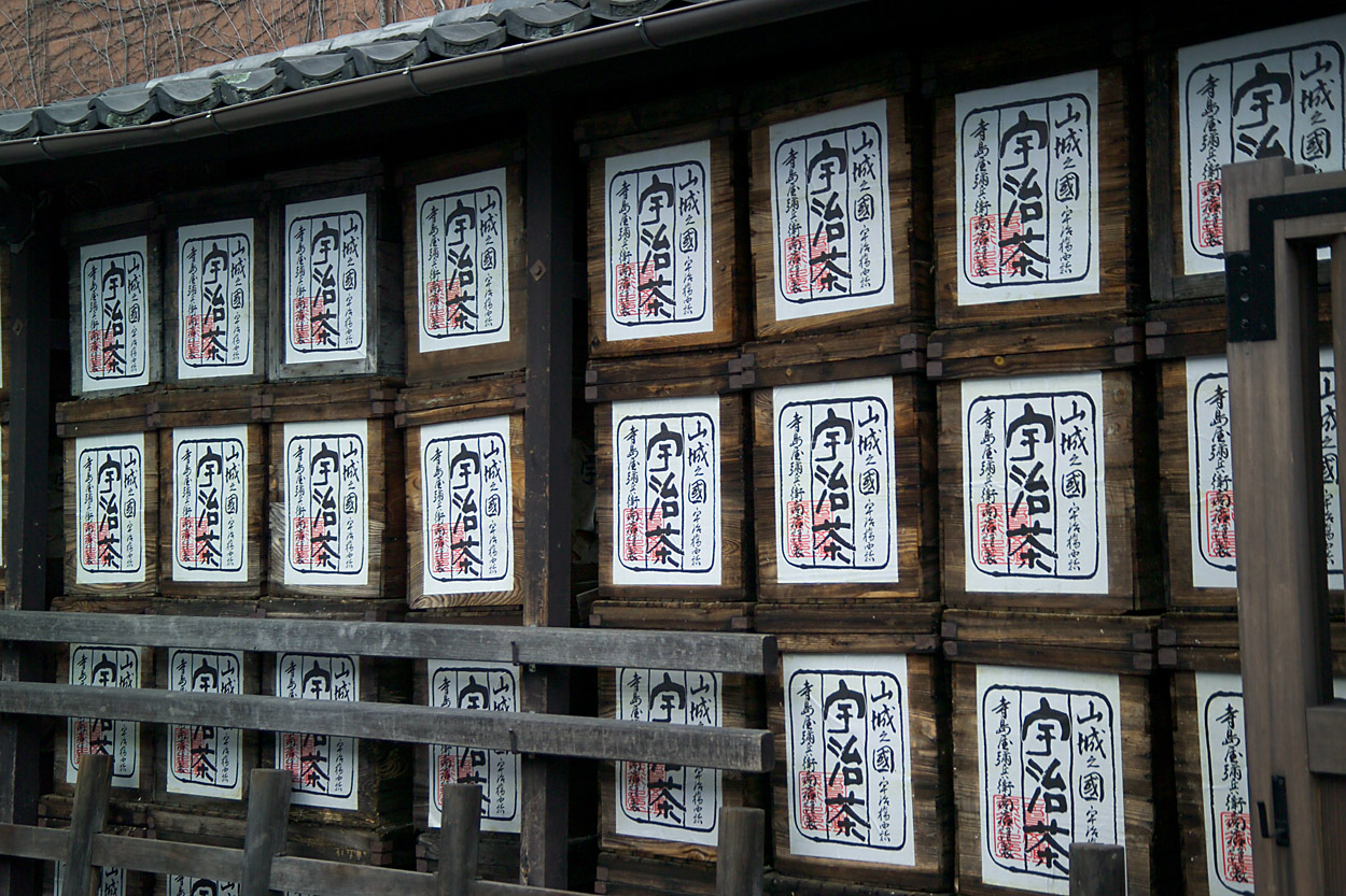 Tea chests. Uji, Kyoto prefecture, Japan. I took this photo and contribute all my rights in the file to the public domain; individuals and organizations retain rights to images in it.